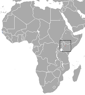 Nyiro Shrew (Crocidura macowi) range